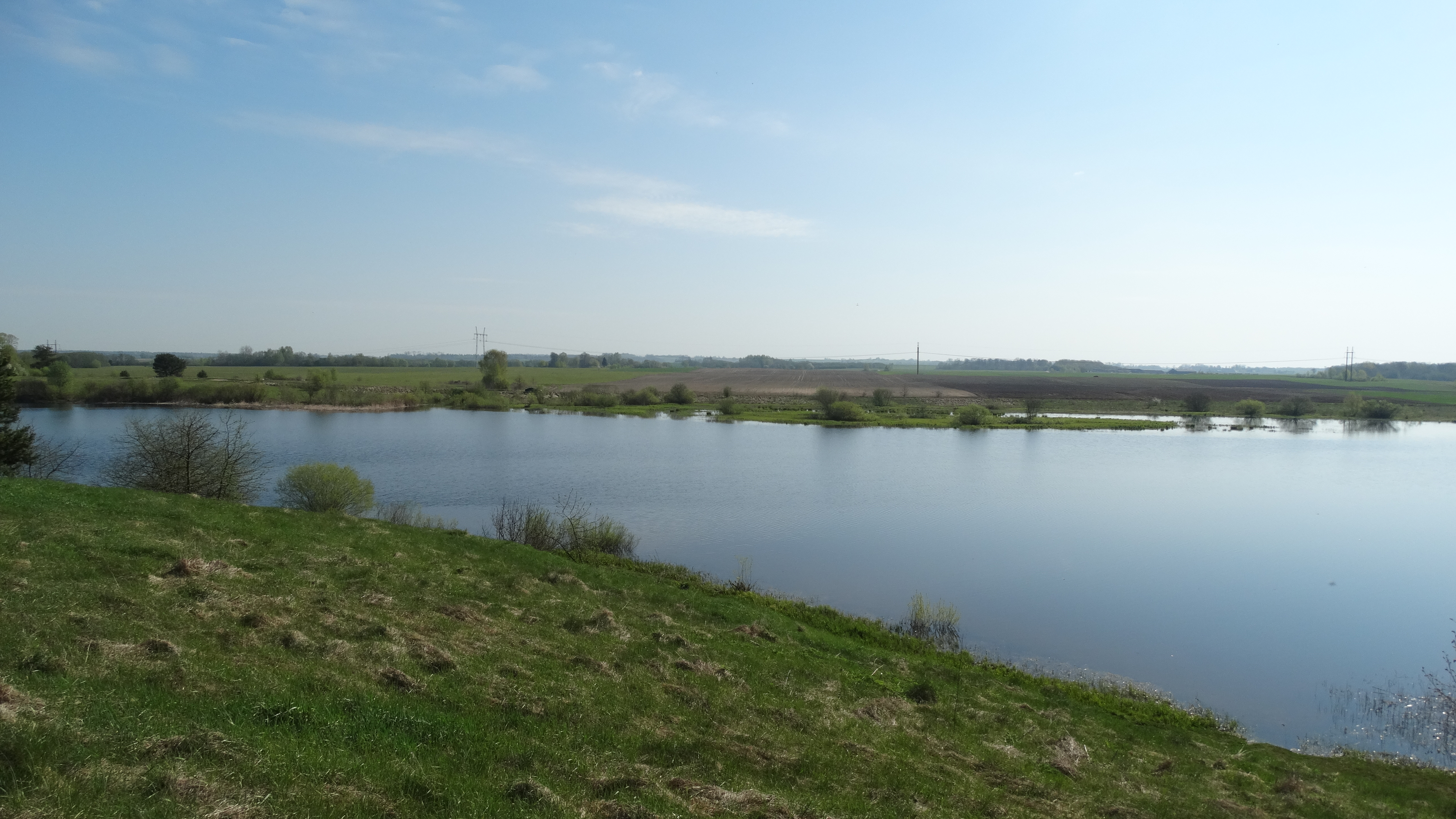 Statkūniškė Lake, Žasliai village, Kaišiadorys District, Lithuania